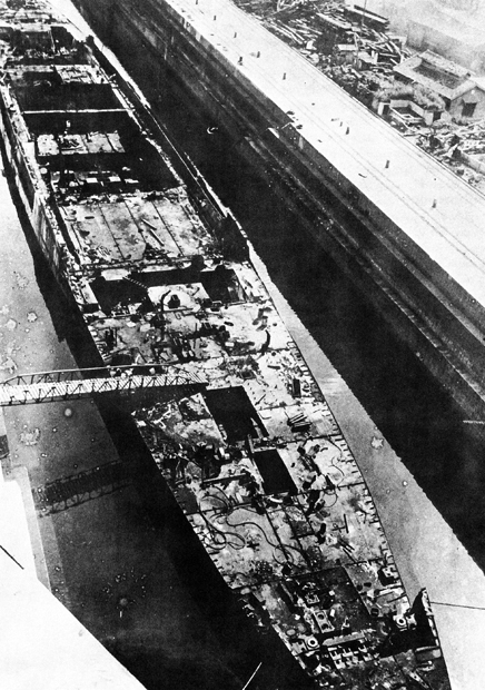 The Japanese Light Cruiser Ibuki in Drydock at Sasebo-64 percent Scrapped, 14 March 1947